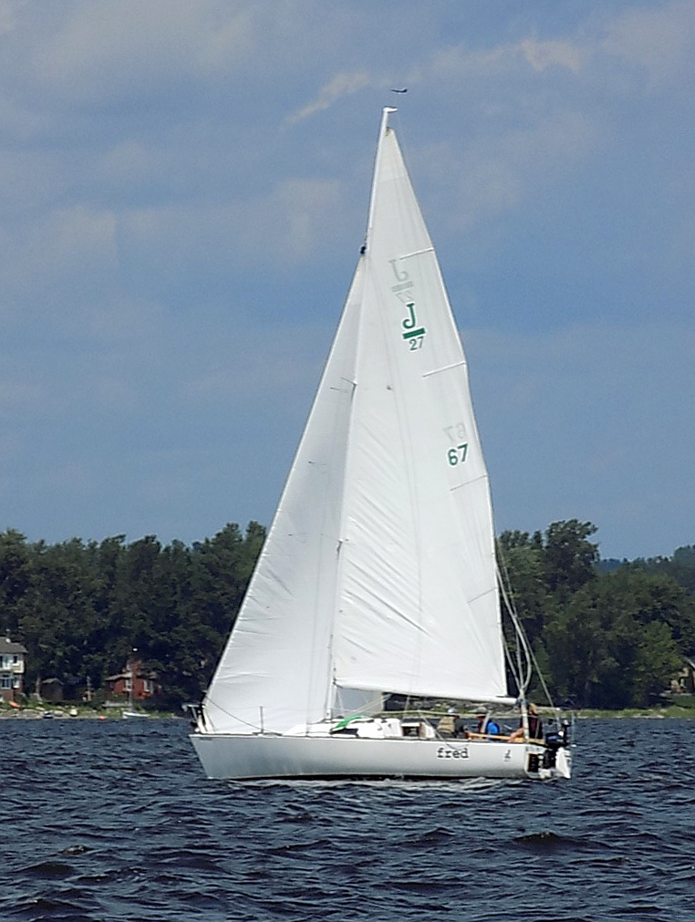 A J/27 sailboat named Fred.